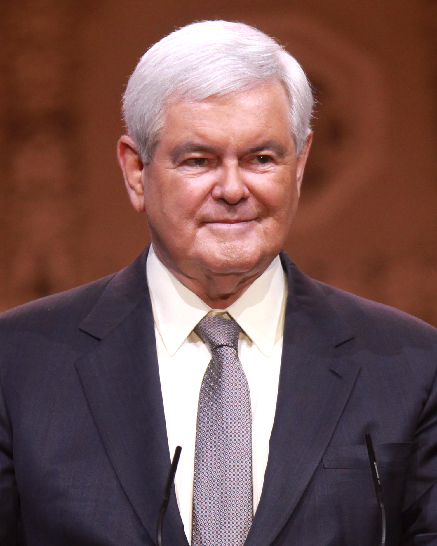 Newt Gingrich speaking at CPAC 2014 in Washington, DC.